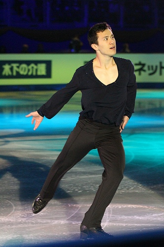 Patrick Chan during his exhibition in Nice, 2012 World Championships